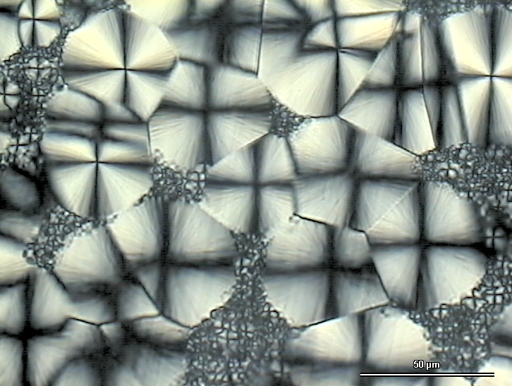 Spherulite in Polyamide 6.6 (microtome section 10µm